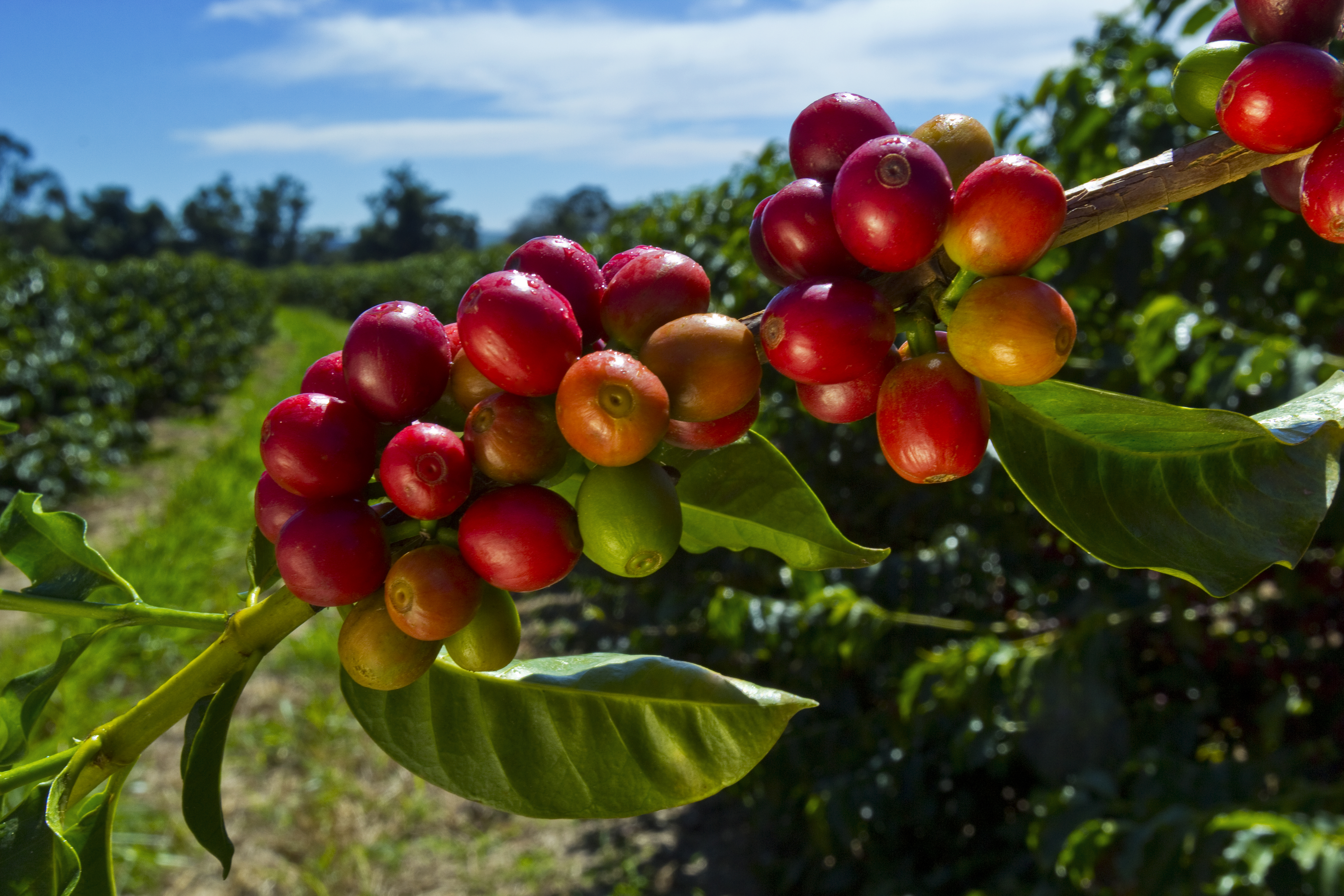 ripe coffee berries mundo novo ready for harvesting